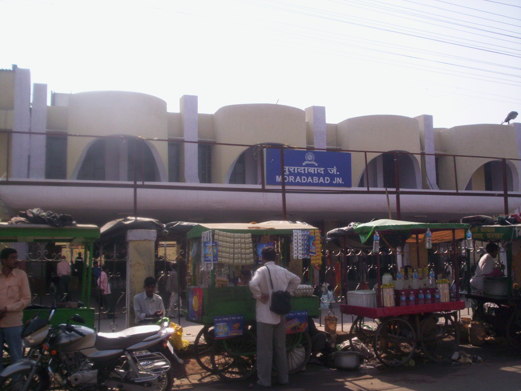 Pictures of Moradabad